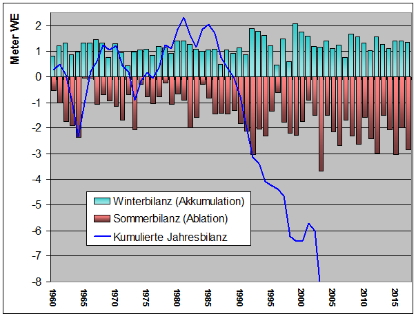 Mass balance of Silvretta Glacier 1960–2017, cumulative anual balance not shown since 2003, value for 2017: -21.9